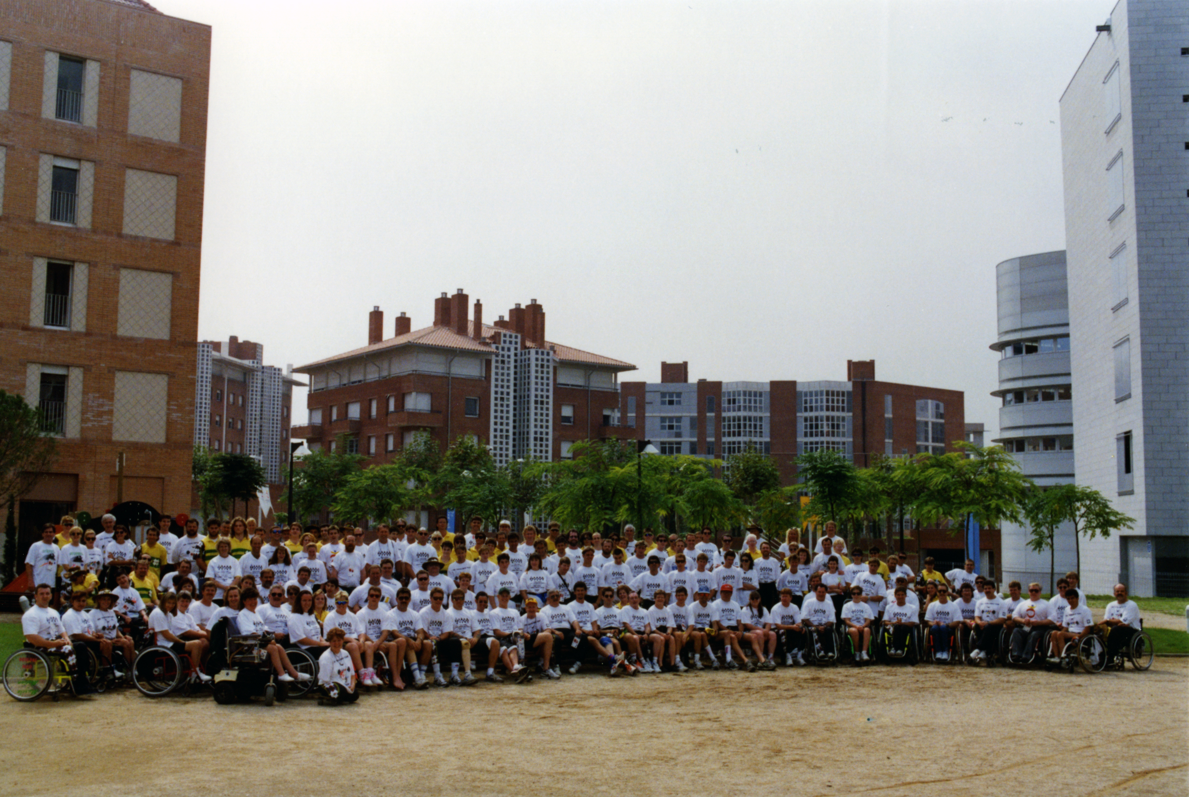 Australian team portrait at the Barcelona 1992 Paralympic Games.